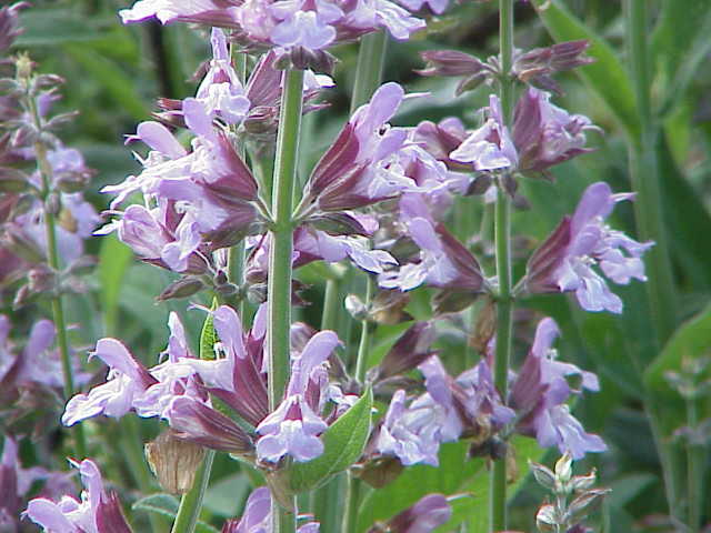 Species: Salvia officinalis Family: Lamiaceae Image No. 1